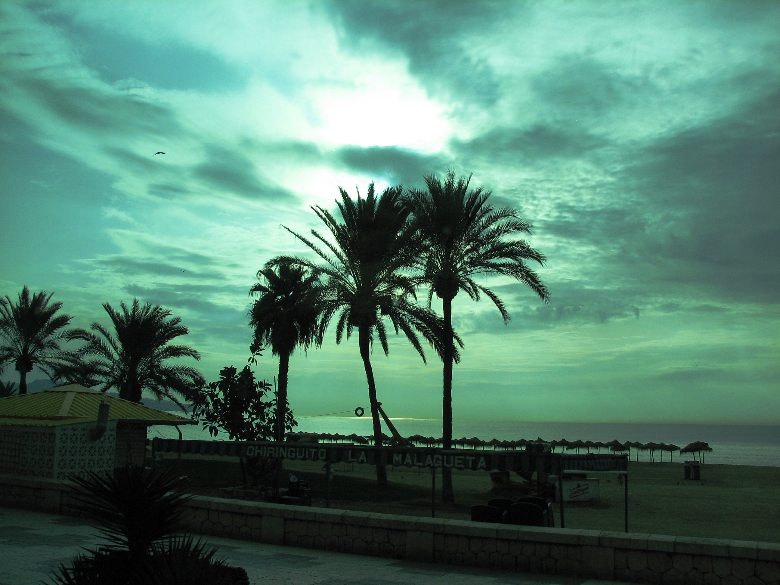 Beach in Malaga Spain - Playa de la Malagueta